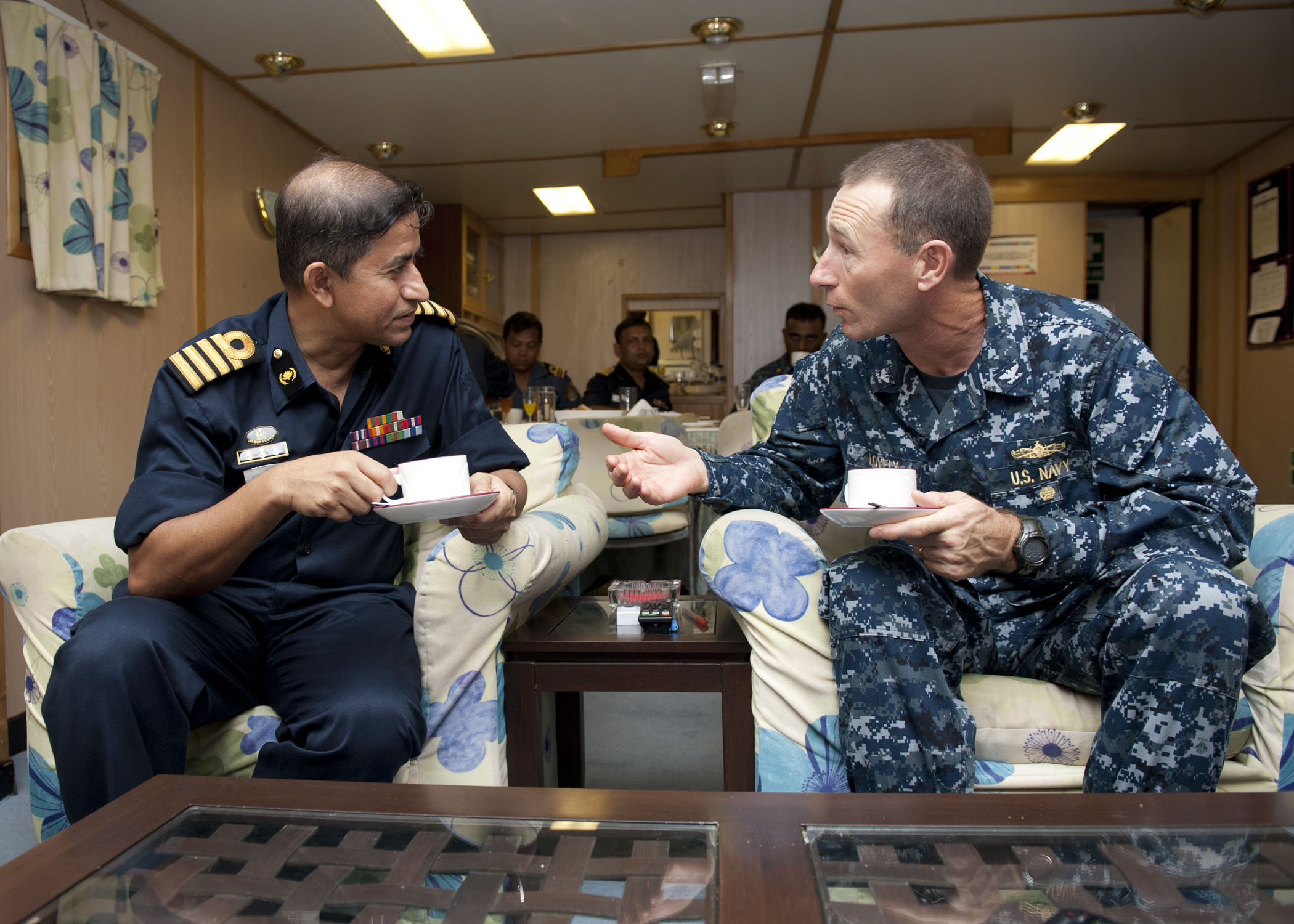 BAY OF BENGAL (Sept. 23, 2011) Capt. William Lovely, deputy commodore of Task Group 73.1, speaks with Capt. Shumon Mahmud Sabbir, commanding officer of the Bangladesh navy corvette BNS Bijoy (F35) in Bijoy's wardroom while returning to shore after the at sea portion of Cooperation Afloat Readiness and Training (CARAT) Bangladesh 2011. CARAT is a series of bilateral exercises held annually in Southeast Asia to strengthen relationships and enhance force readiness. Bangladesh is participating in this exercise for the first time. (U.S. Navy photo by Mass Communication Specialist 1st Class Lowell Whitman/Released)